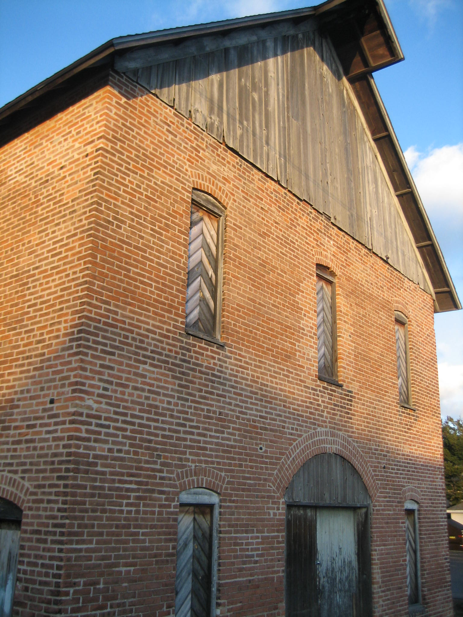 Joseph F. Glidden Barn, DeKalb, Illinois, National Register of Historic Places.